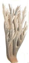 Figure 8 from the instructional pamphlet "Twelve edible mushrooms of the United States" by Thomas Taylor, illustrating a specimen of Clavaria cinerea.